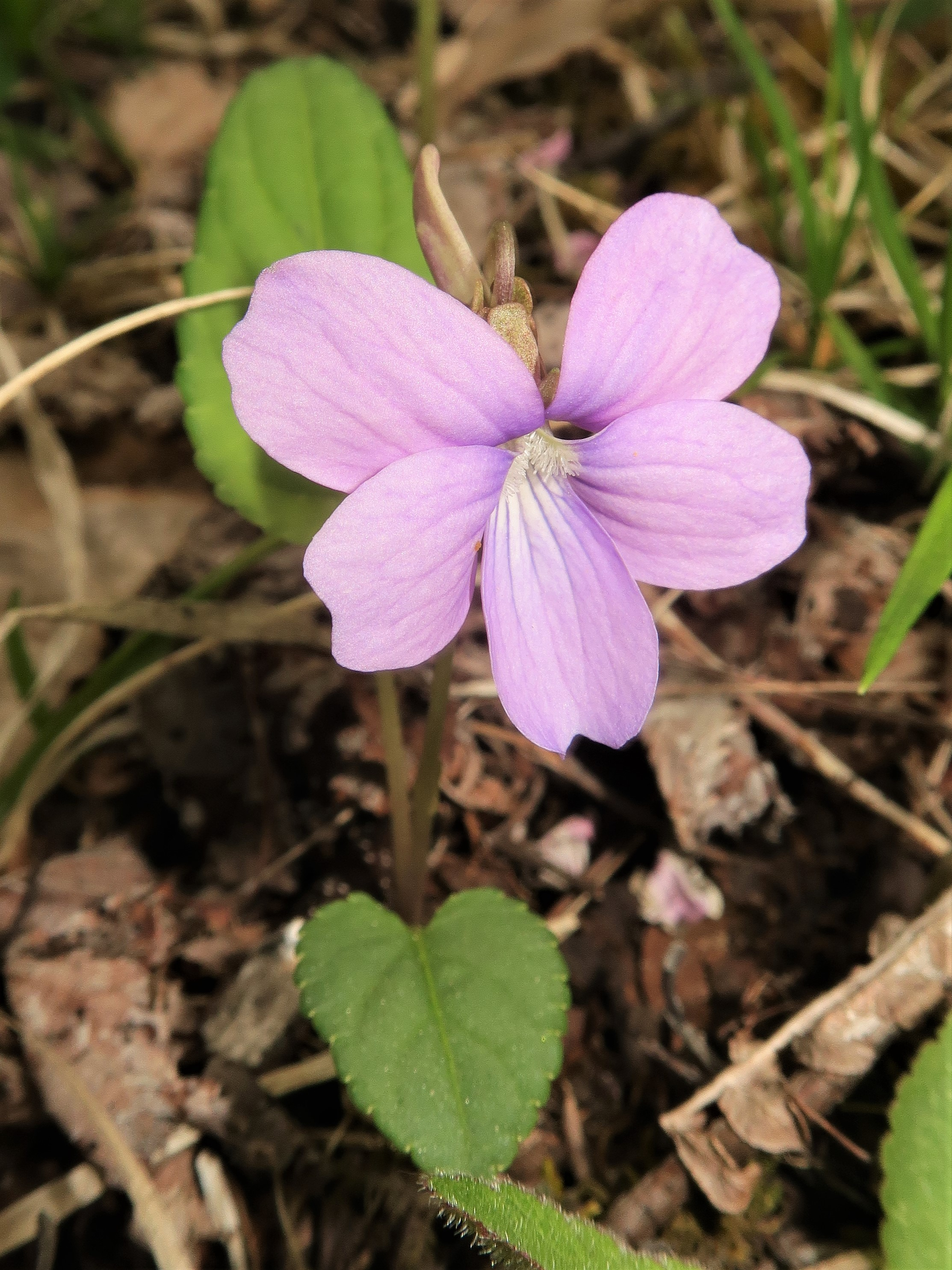 Viola hirtipes, Aizu area, Fukushima pref., Japan